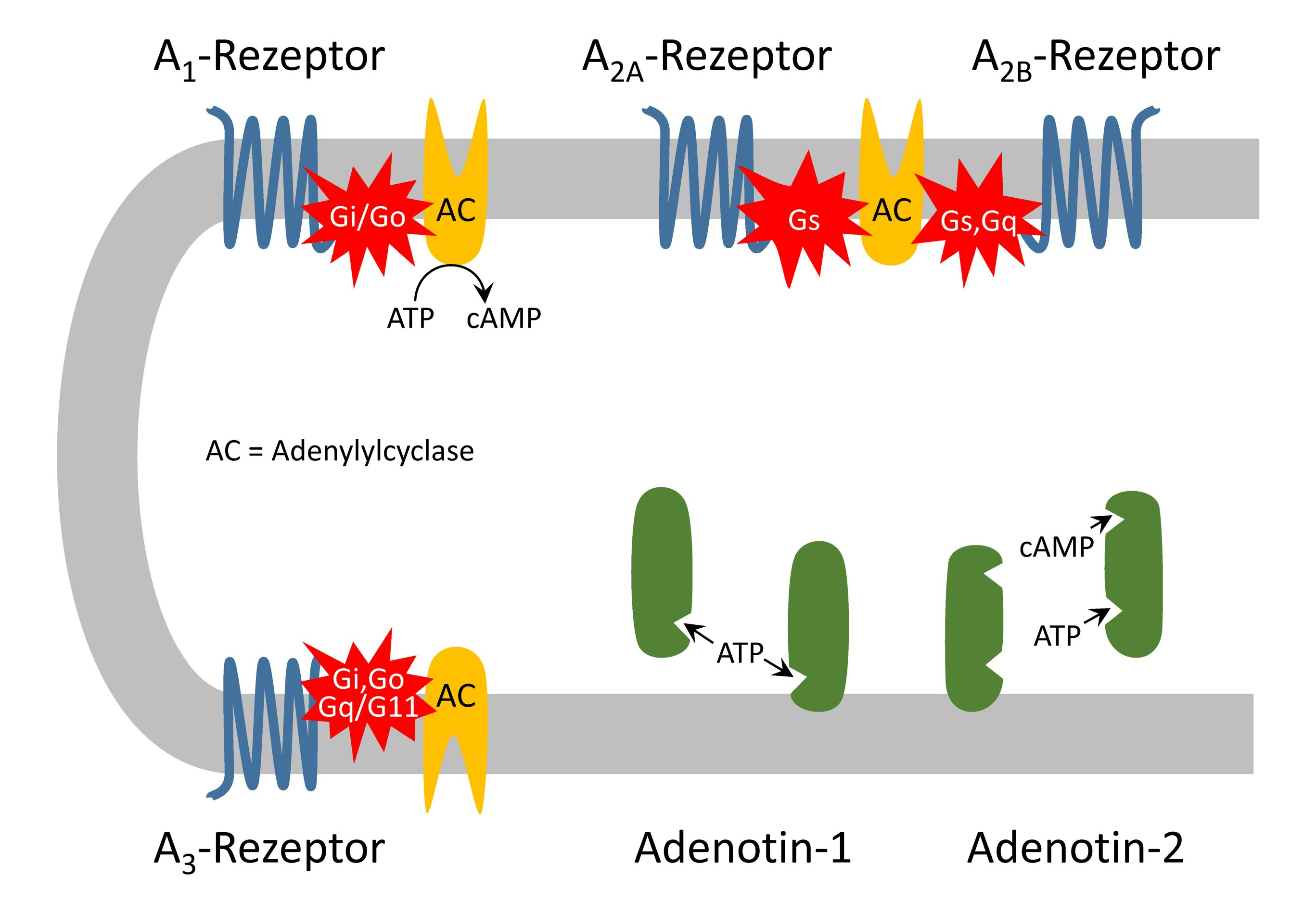 Adenosine receptor types. Modified from A. Lorenzen und U. Schwabe: P1 receptors. In: M. P. Abbracchio und M. Williams (Hrsg.): Purinergic and Pyrimidinergic Signalling I. Handbook of Experimental Pharmacology 151/I. Springer-Verlag, Berlin, Heidelberg, New York 2001